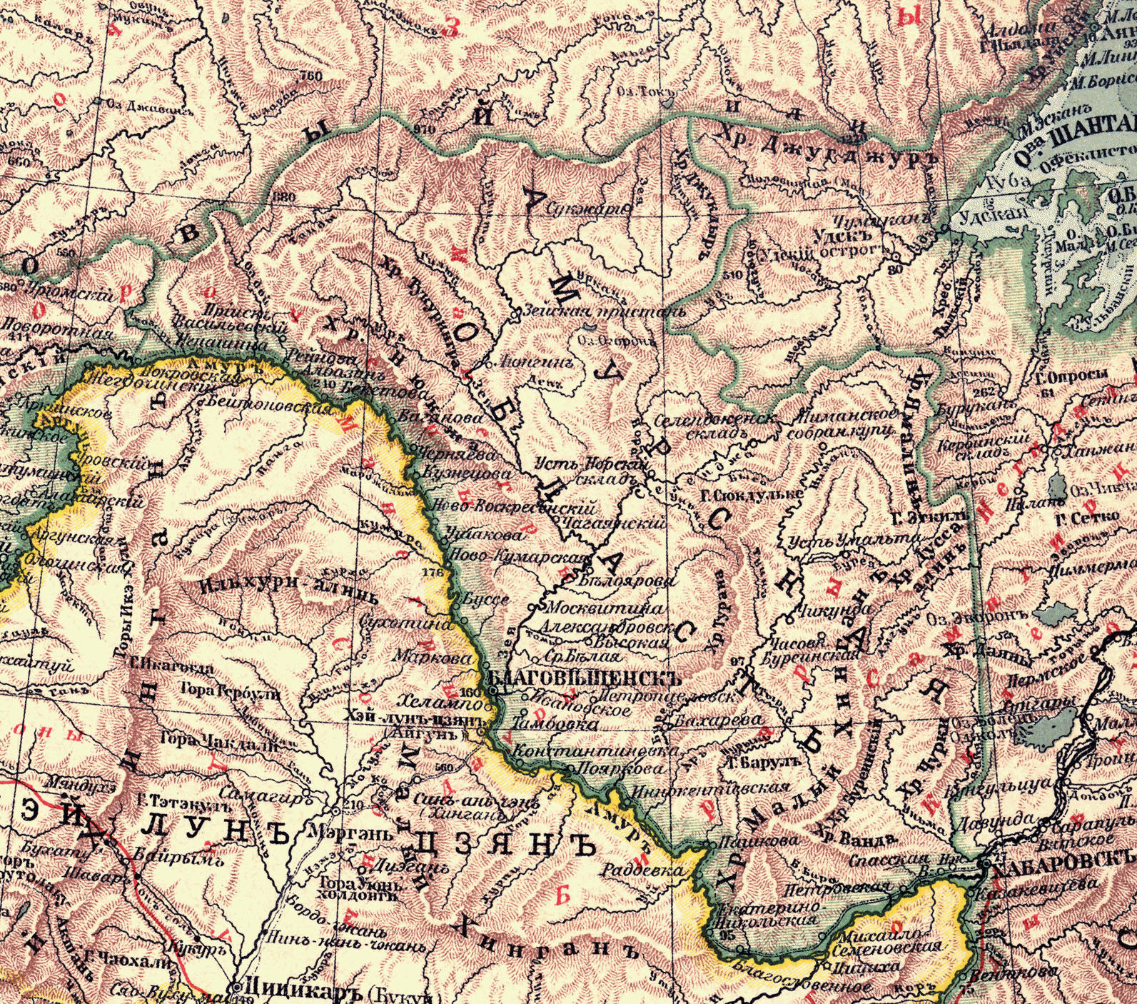 Map of Amur Oblast (Russian Empire), Eastern Siberia.